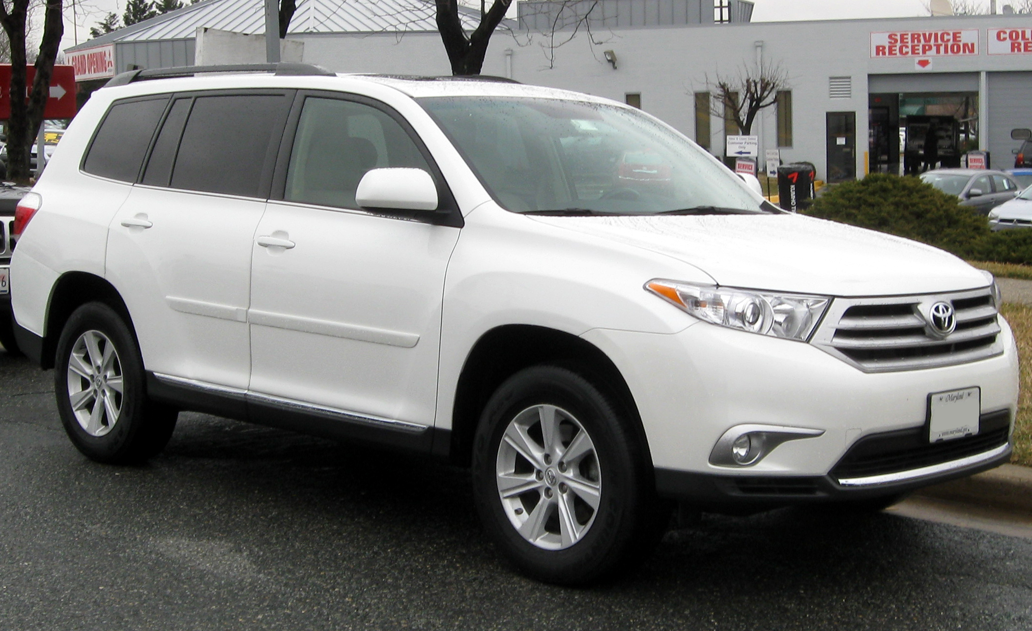 2011-2012 Toyota Highlander photographed in Silver Spring, Maryland, USA.